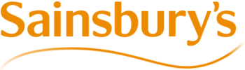 Logo of Sainsbury's